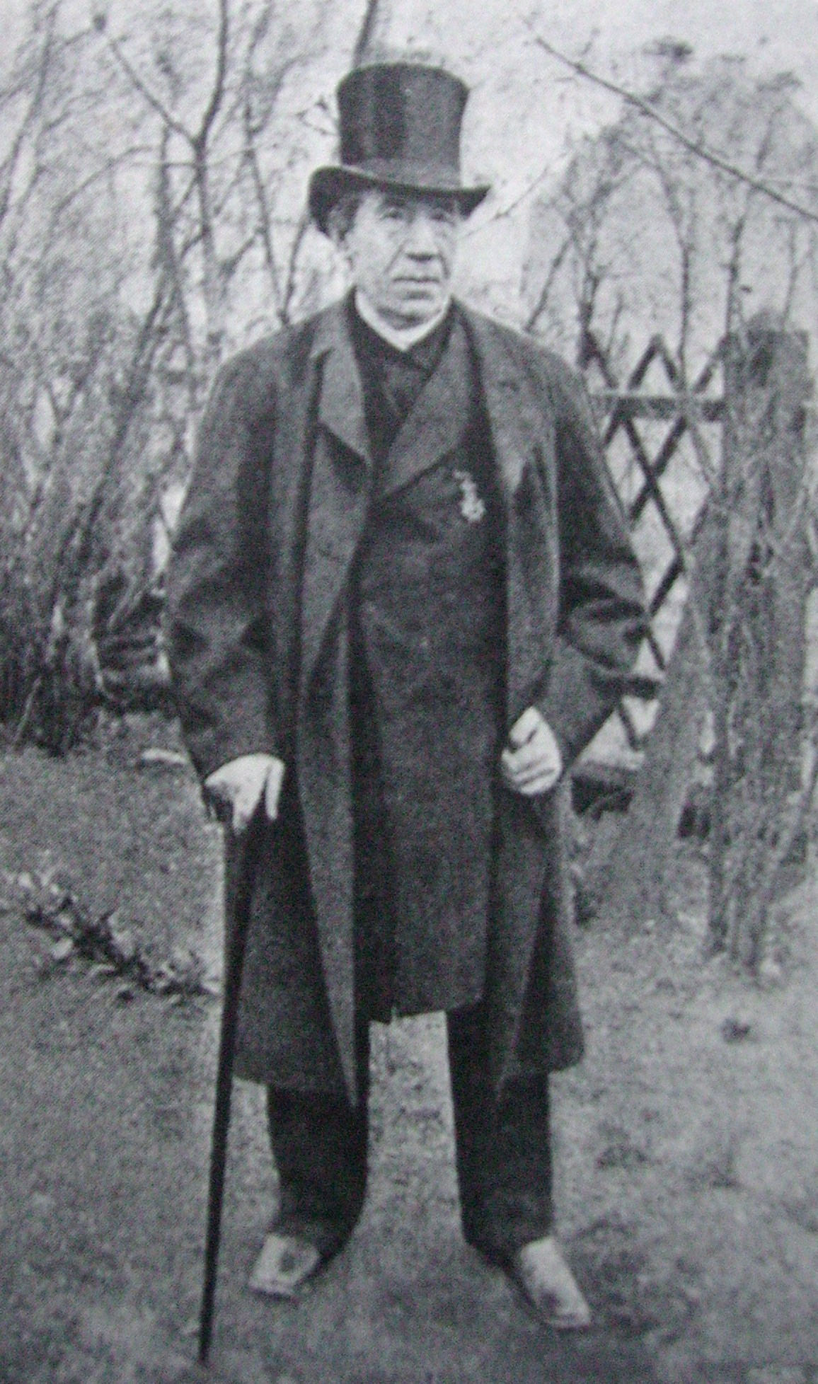 Picture of Carl Ifvarsson, Swedish politician